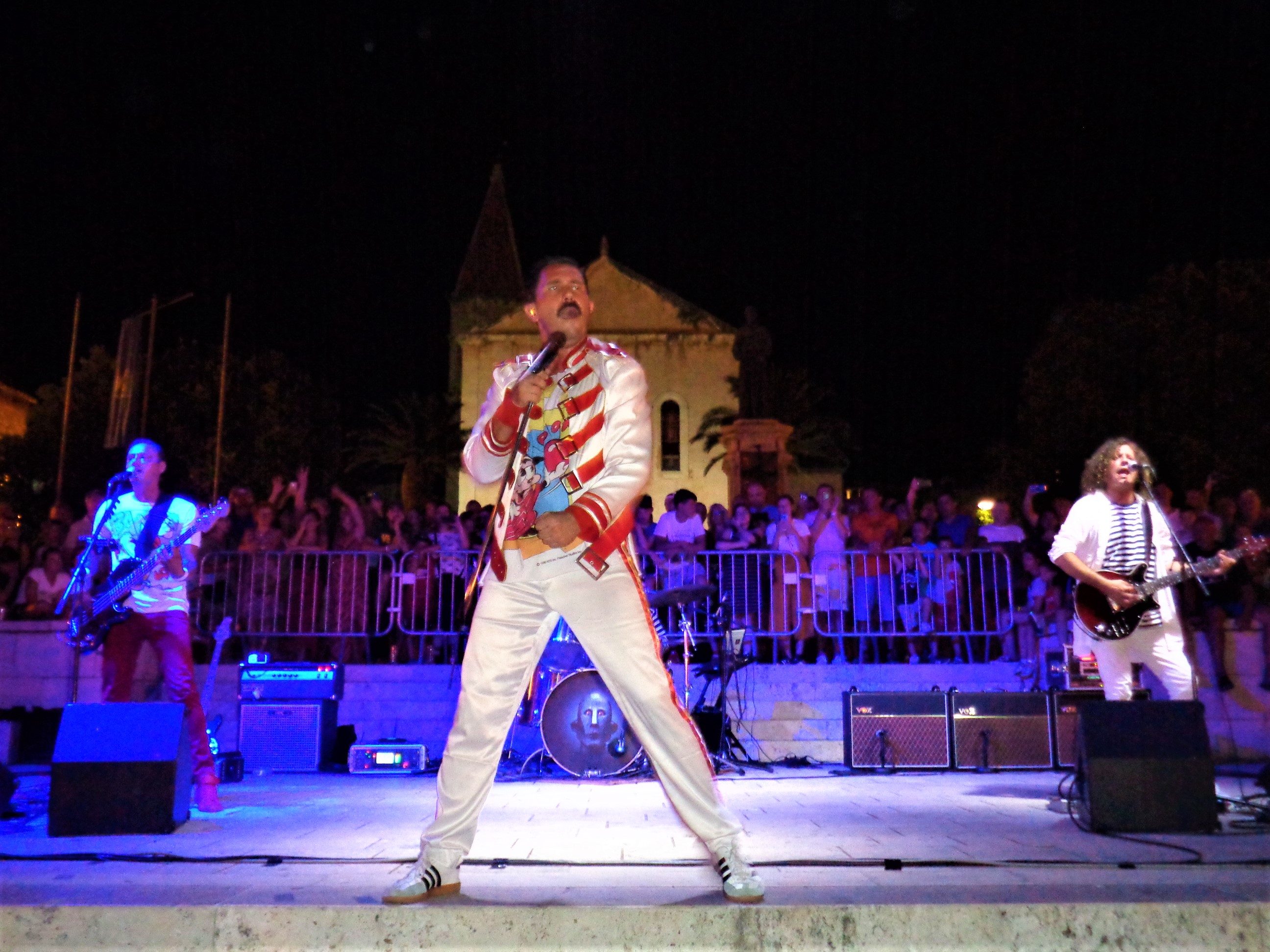 Queen Real Tribute Band pop concert in Makarska, Croatia, 25.07.2019. - Ivan Ristanović